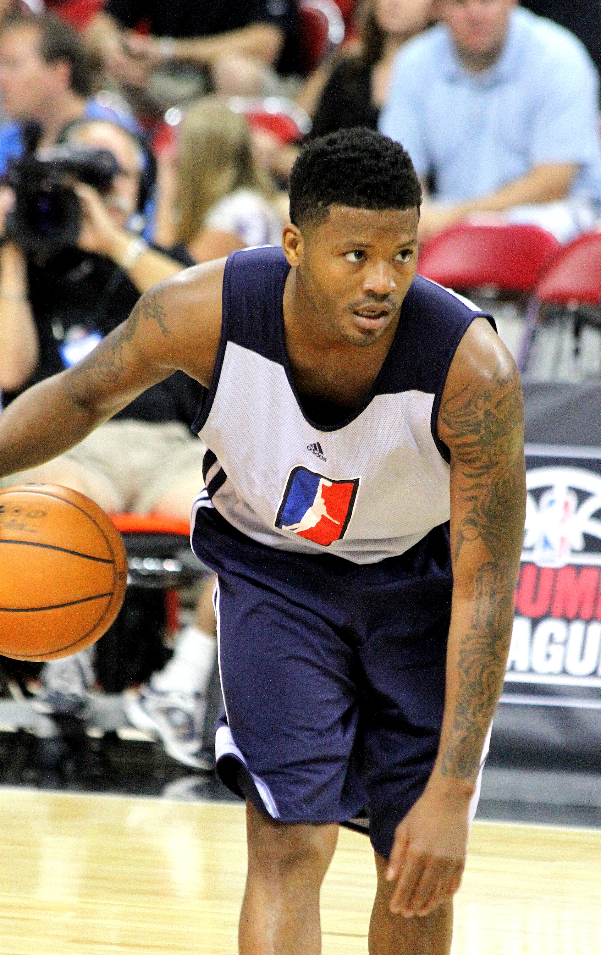 Stefhon Hannah playing for the D-League Select Team at the 2013 NBA Summer League in Las Vegas